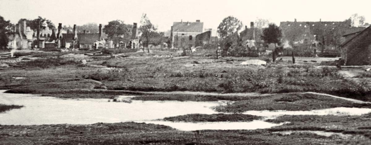 General view of Radzymin after bombardment. August 1920